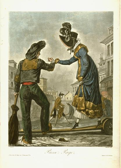 Passez Payez. Hand-colored aquatint. The University of Michigan Museum of Art. For an explanation of the scene, see Image:Passer-payez-Boilly-ca1803.jpg. See also Passez payez.